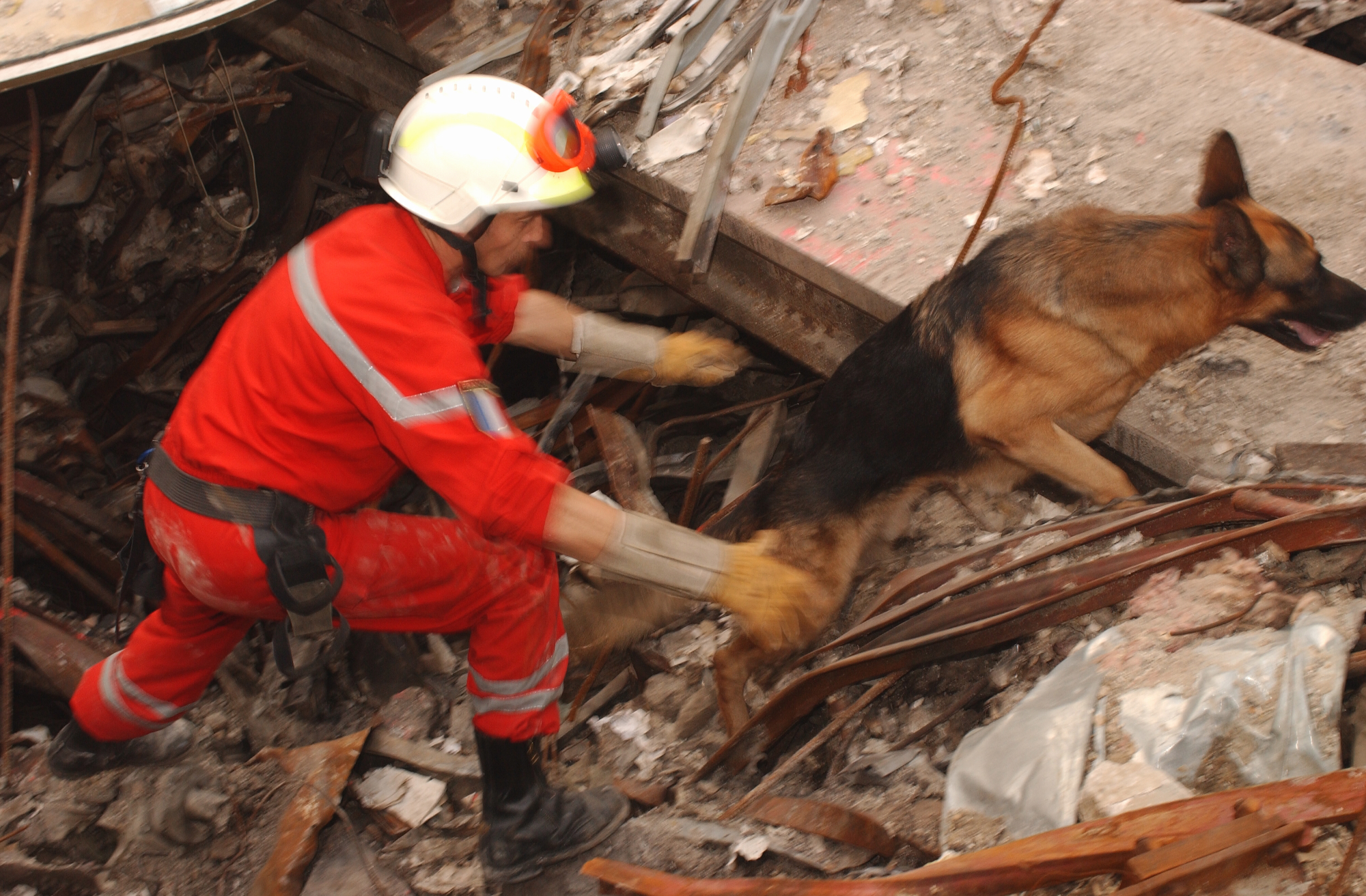 member of the French Urban Search and Rescue Task Force works with his Alsation to uncover survivors at the site of the collapsed World Trade Center after the 9/11 attacks.